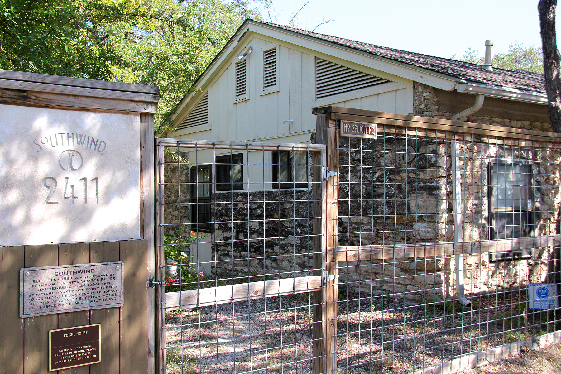 Seymour and Barbara Fogel House located at 2411 Kinney Rd, Austin, Texas, United States. The house was listed on the National Register of Historic Places on April 2, 2003.